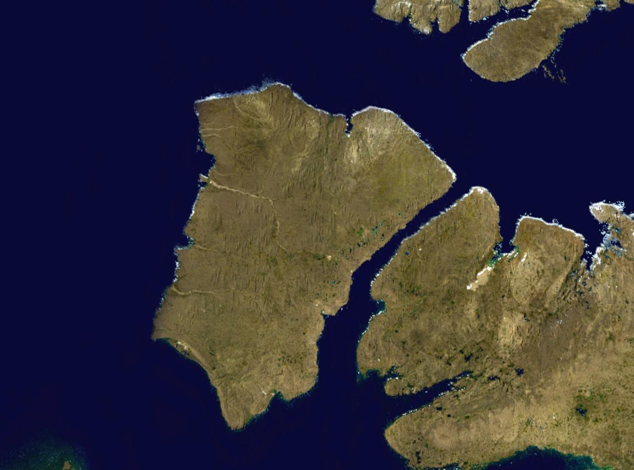 Banks Island in the Canadian arctic. Satellite view. NASA blue pearl data.